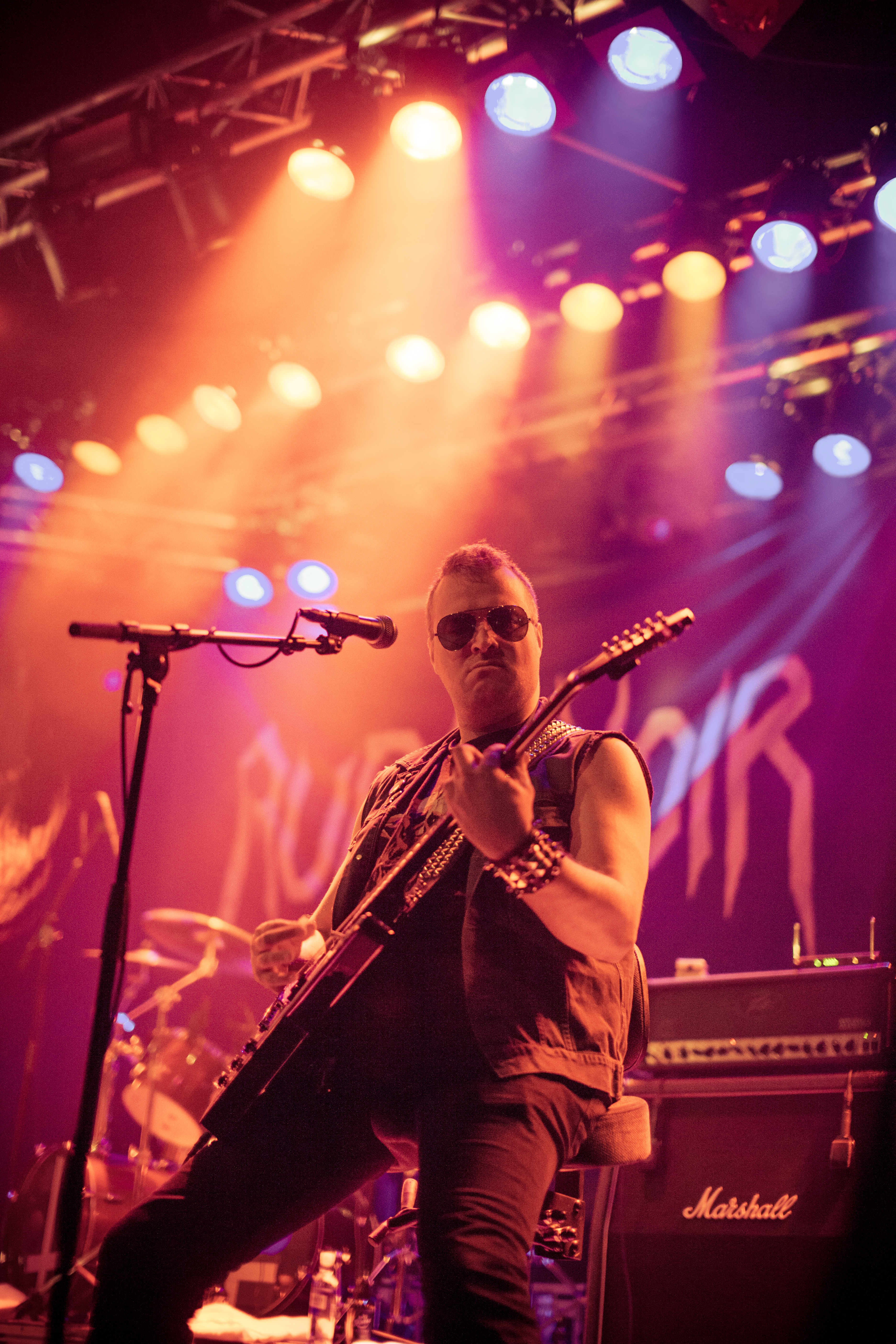 Aggressor (Carl-Michael Eide) of Aura Noir